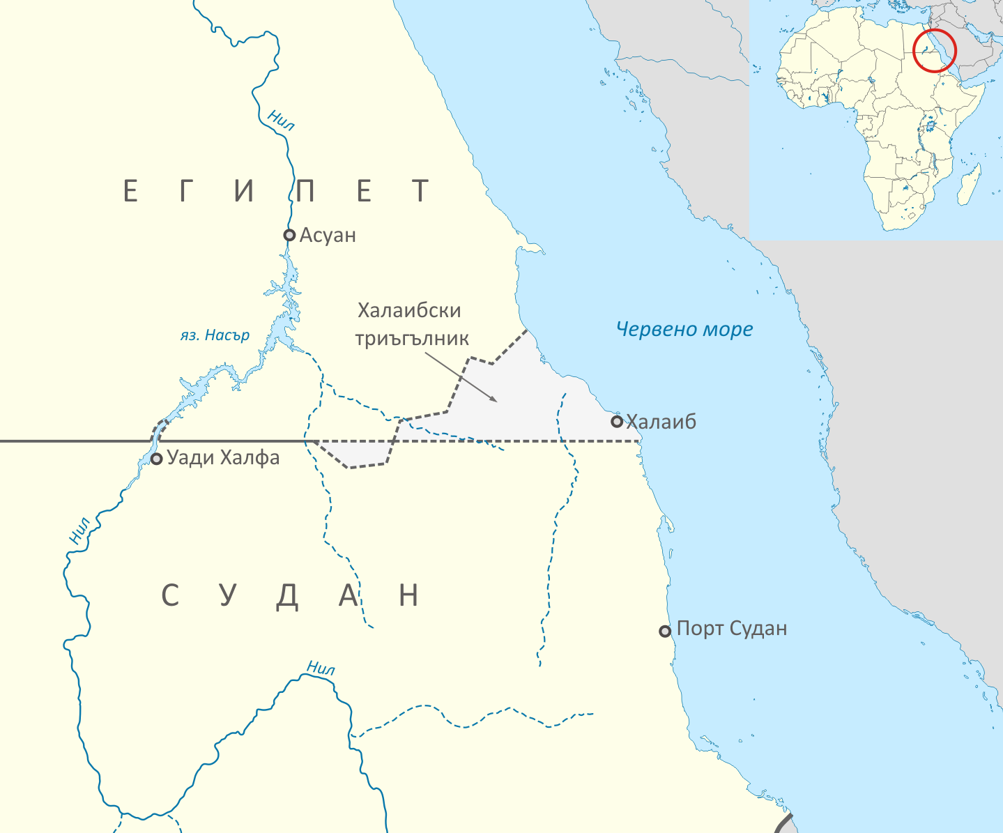 Map of Halaib Triangle in Bulgarian